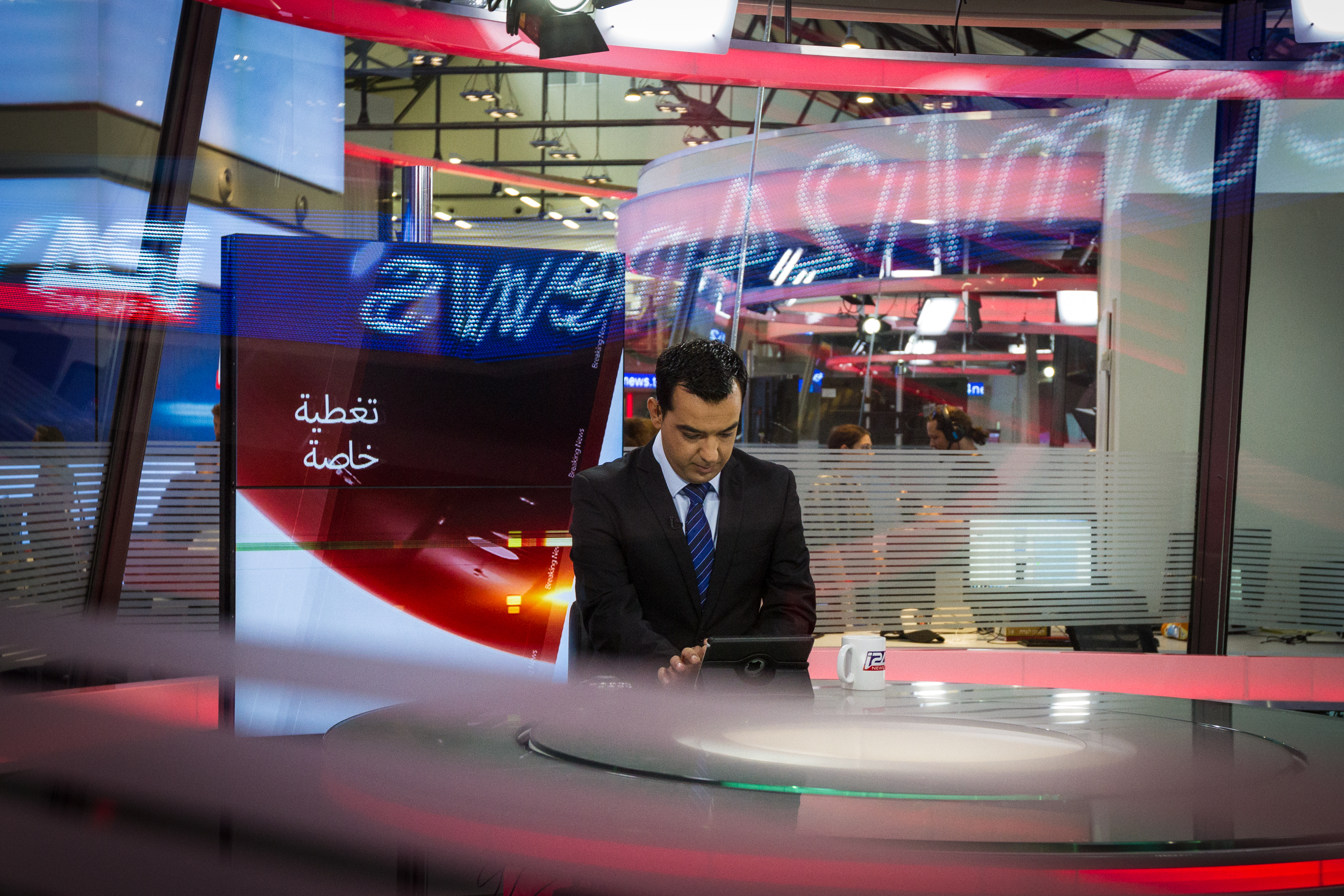 I24news Tel Aviv Yaffo 14 juillet 2014